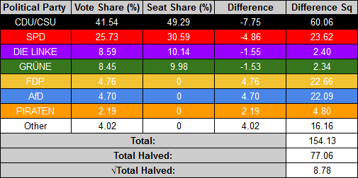 The German Federal Election (2013) Gallagher Index